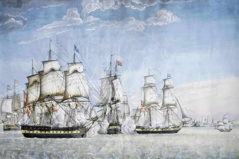 The Dano-Norwegian frigate Najaden leading a small Danish squadron against six corsair ships outside Tripoli, May 16, 1797.